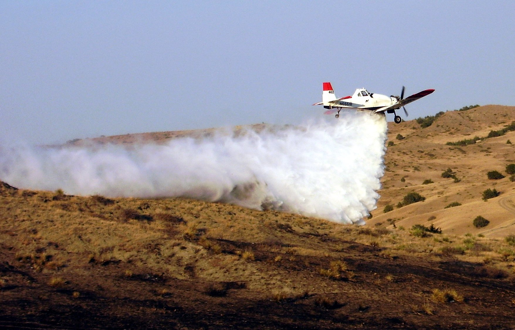 The PZL-Mielec M-18B Dromader used by the State of South Dakota for wildland fire supression. It is doing a water drop on a very small fire here.